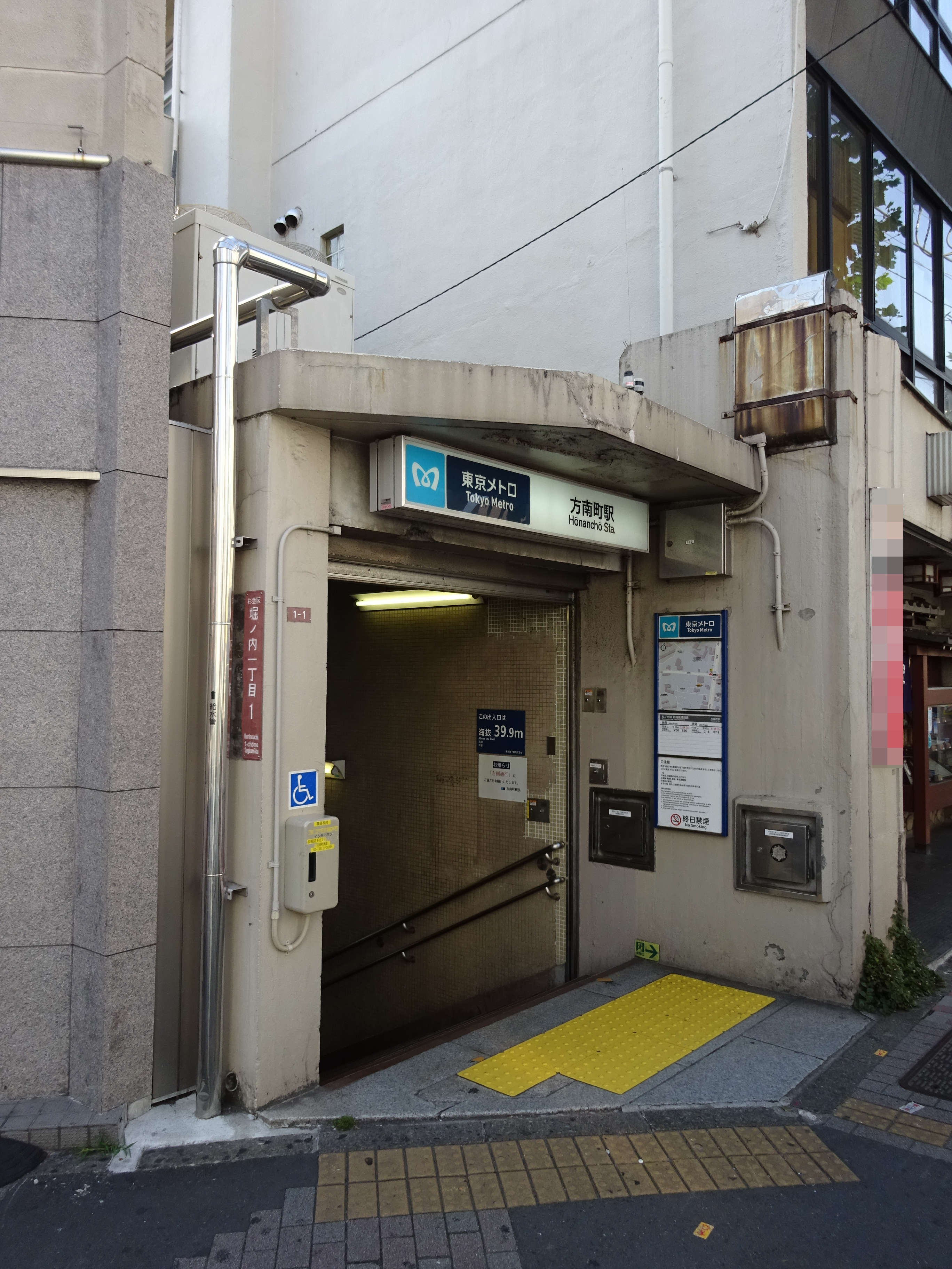 Honancho Station Exit No.1